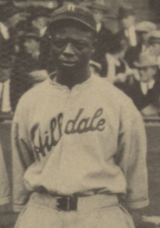 Phil Cockrell at the 1924 Colored World Series. LOC states here that there are no restrictions on use of this image, therefore it is PD. This file has been extracted from another file: 1924 Negro League World Series.jpg